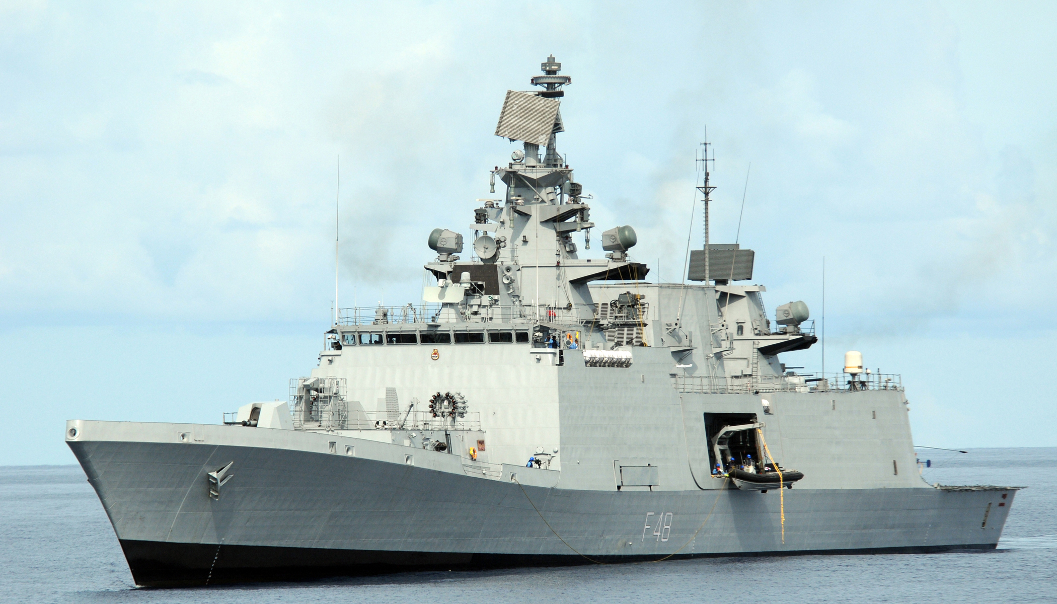 The Indian navy frigate Satpura (F-48) transits the Indian Ocean during Exercise Malabar 2012.